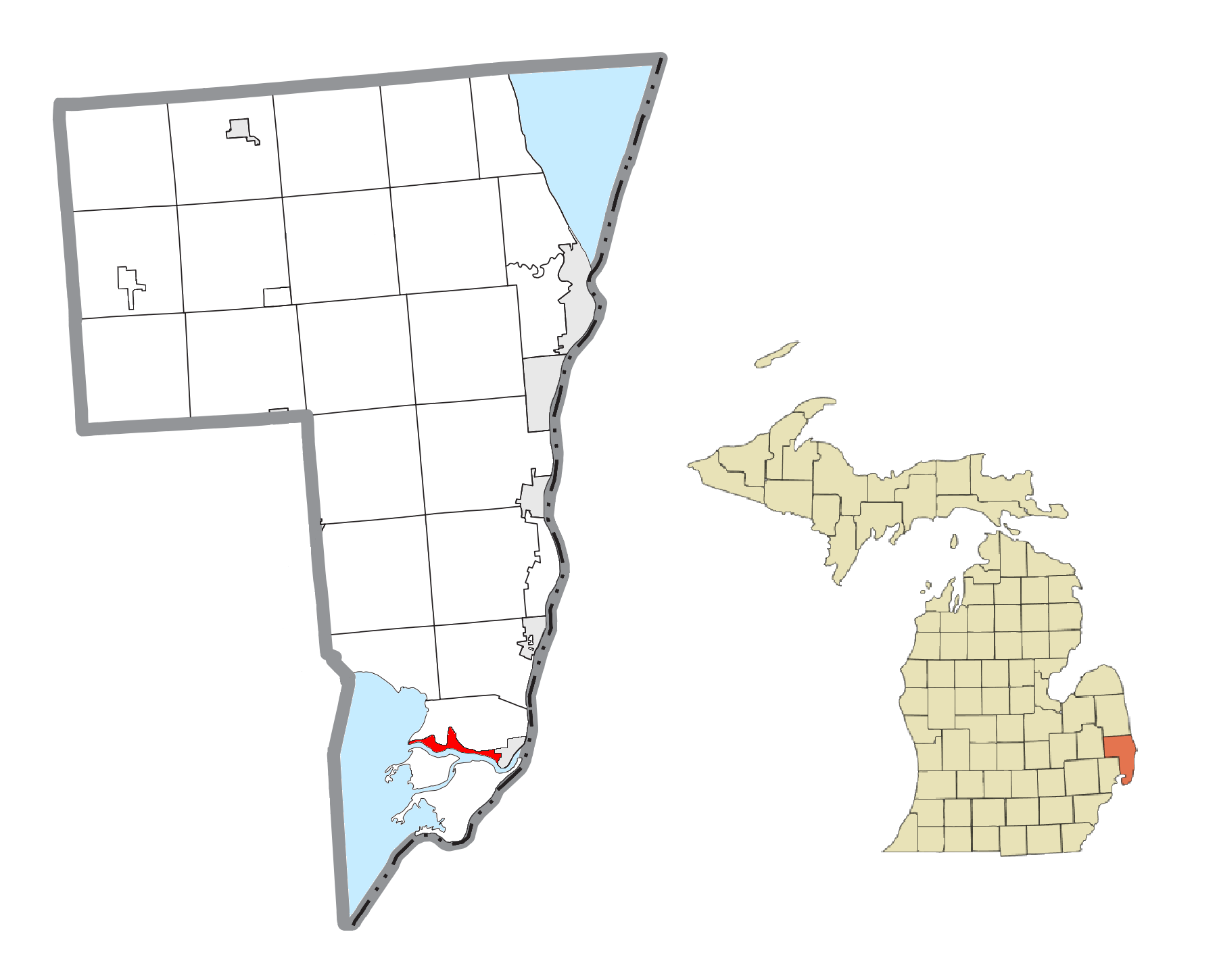 Pearl Beach (St. Clair), MI